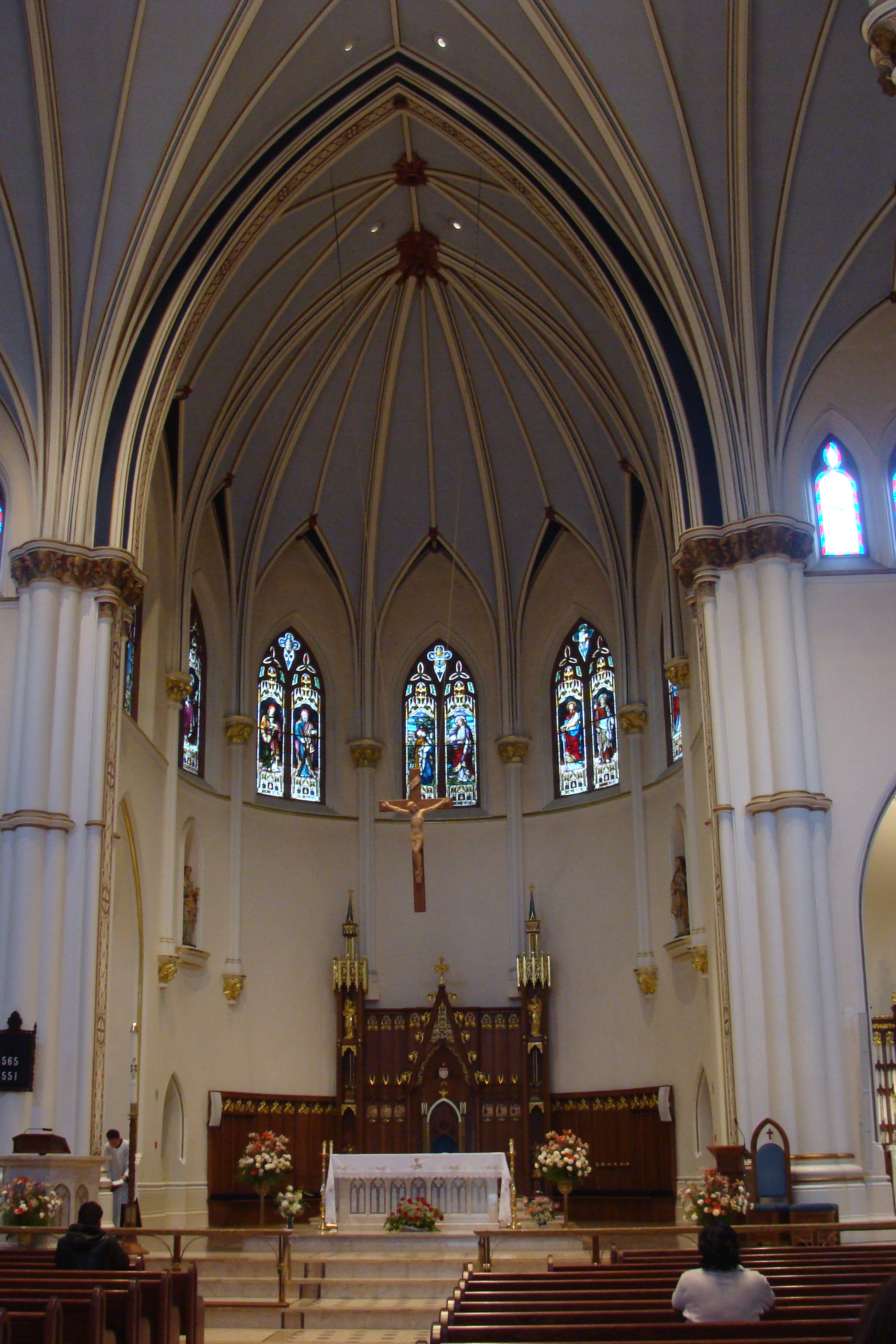 Holy Rosary Cathedral Altar